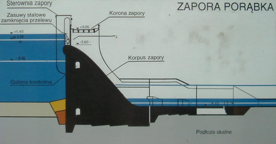 Dam on the Soła river, Prąbka, Poland. Cross Section of the Dam. From a tourist information table.